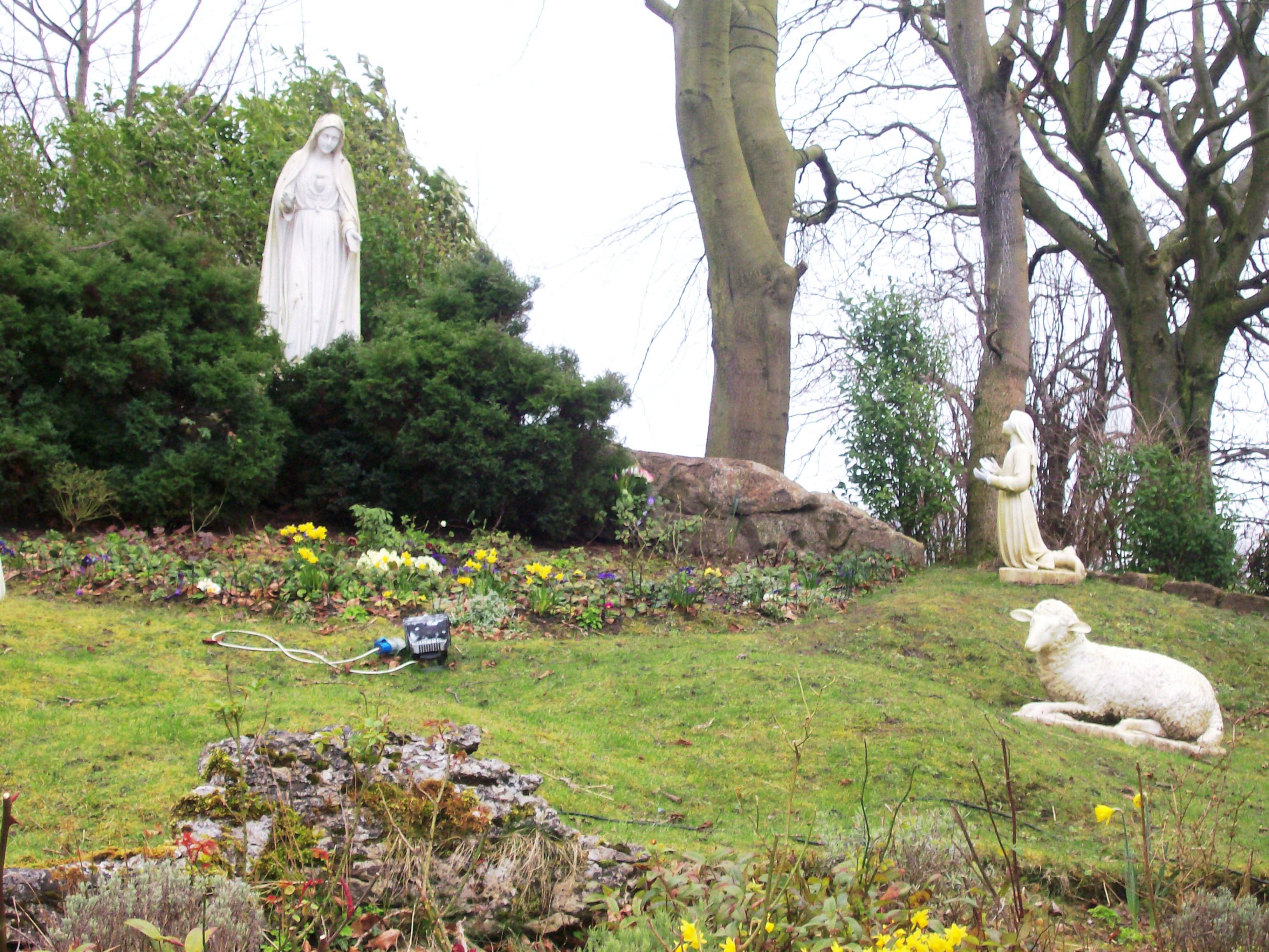 I took this photograph of St Bernadette's statue at Carfin Grotto